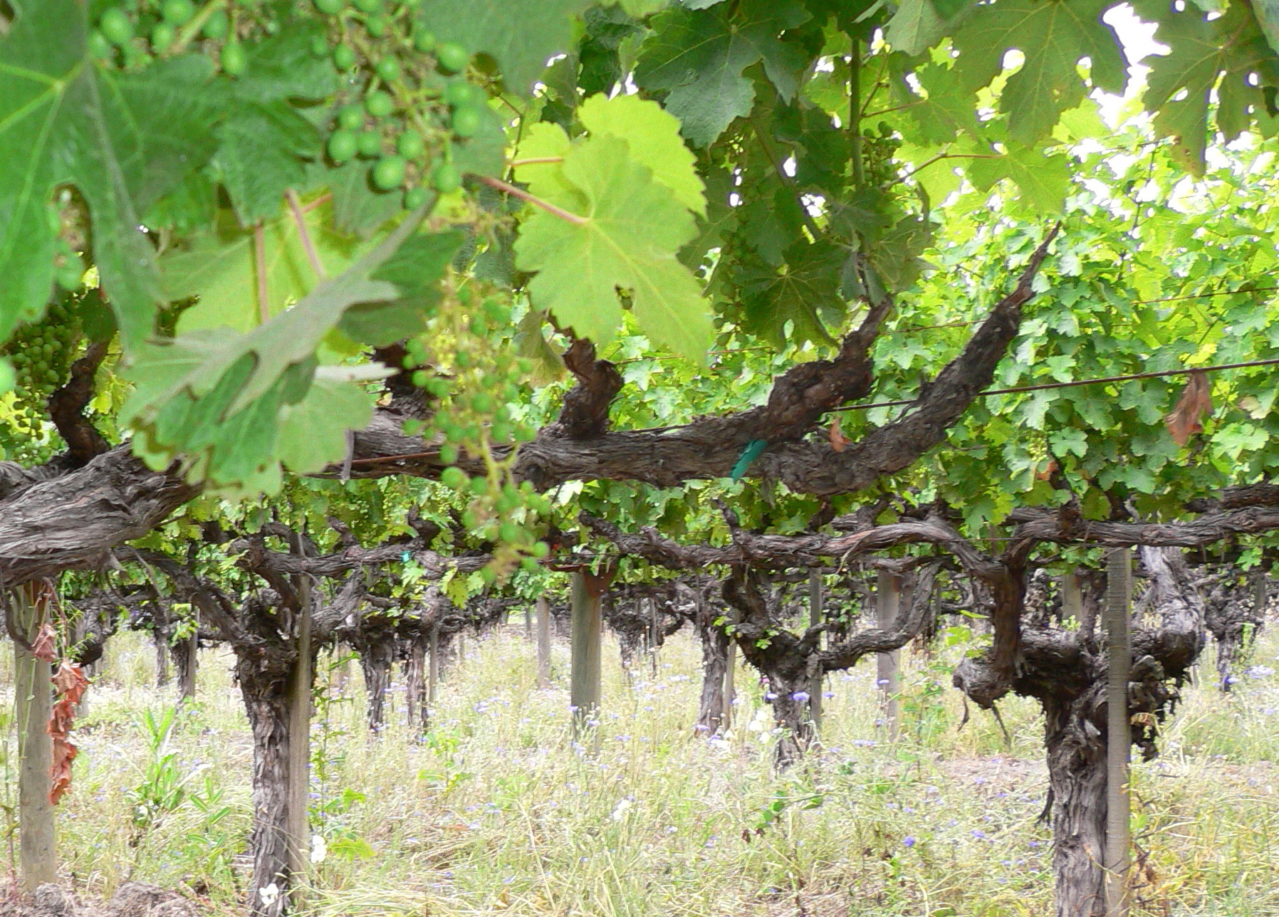 Old vines in Cabernet Sauvignon vineyard of Chateau Montelena winery. Located near Calistoga, in the Napa Valley, California.